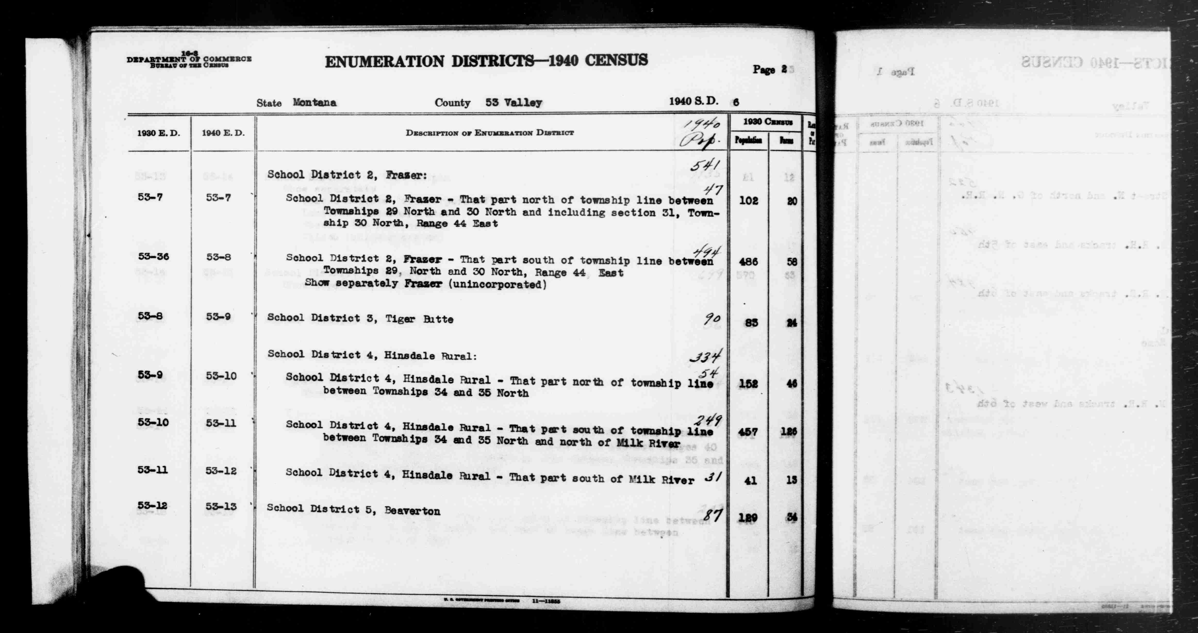 This is a picture taken from 1940 U.S. Census. It shows the Beaverton, Montana District.